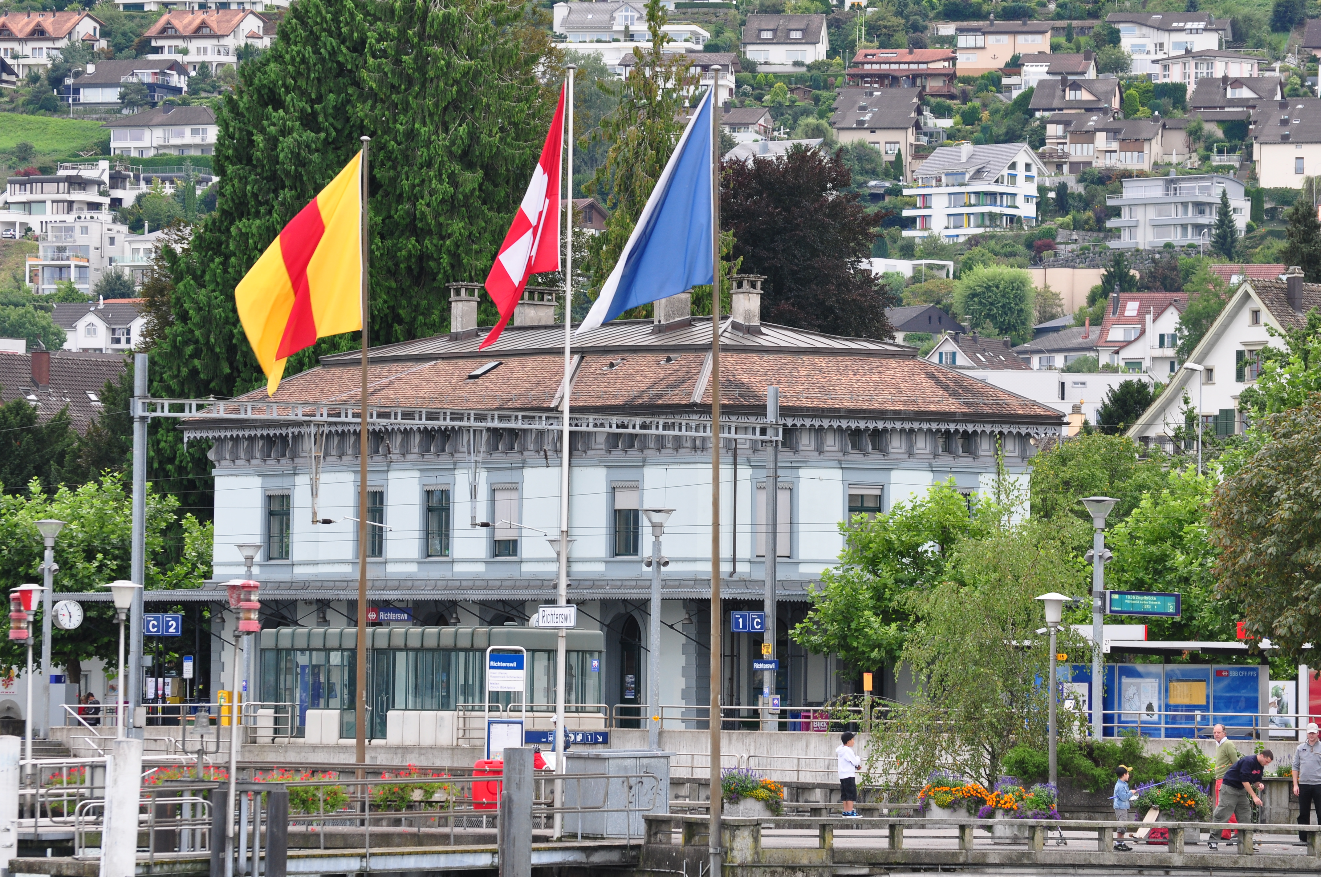 Richterswil (Switzerland) as seen from ZSG paddle steamship Stadt Rapperswil